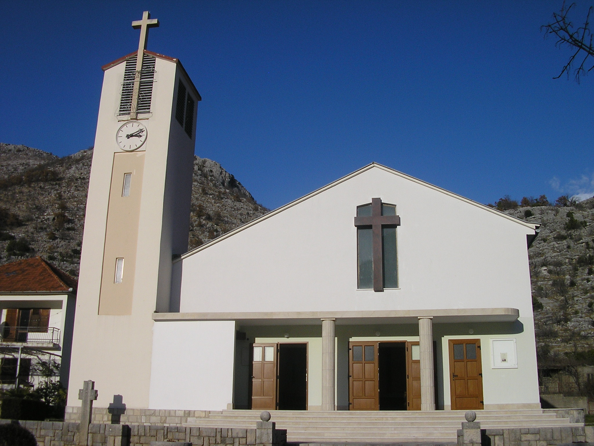 Christ the King's church